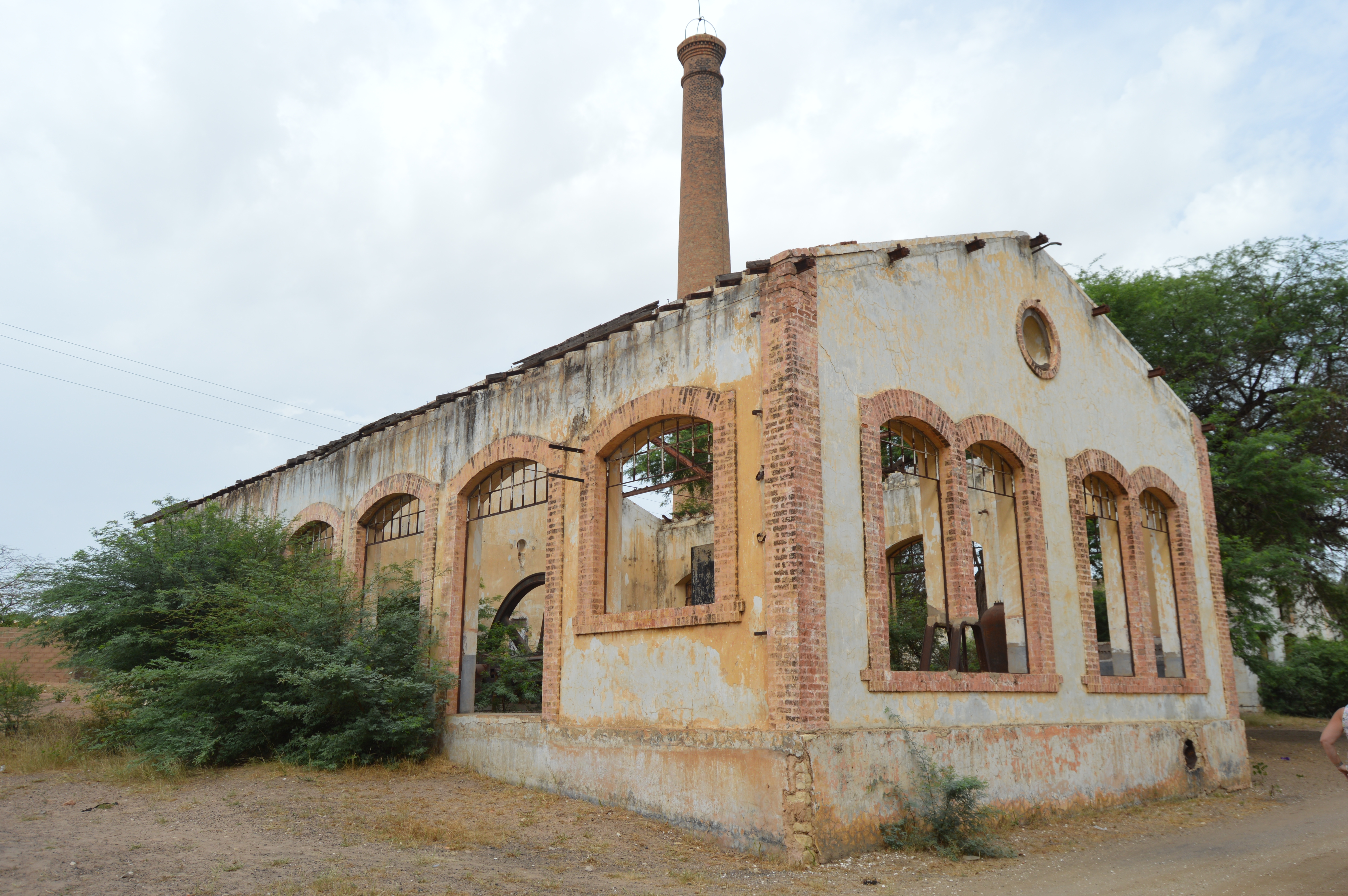 Ancient Mbakhana Water Factory, nearby Saint-Louis, Senegal - newest building; oldest sub-saharian african existing steam engines.